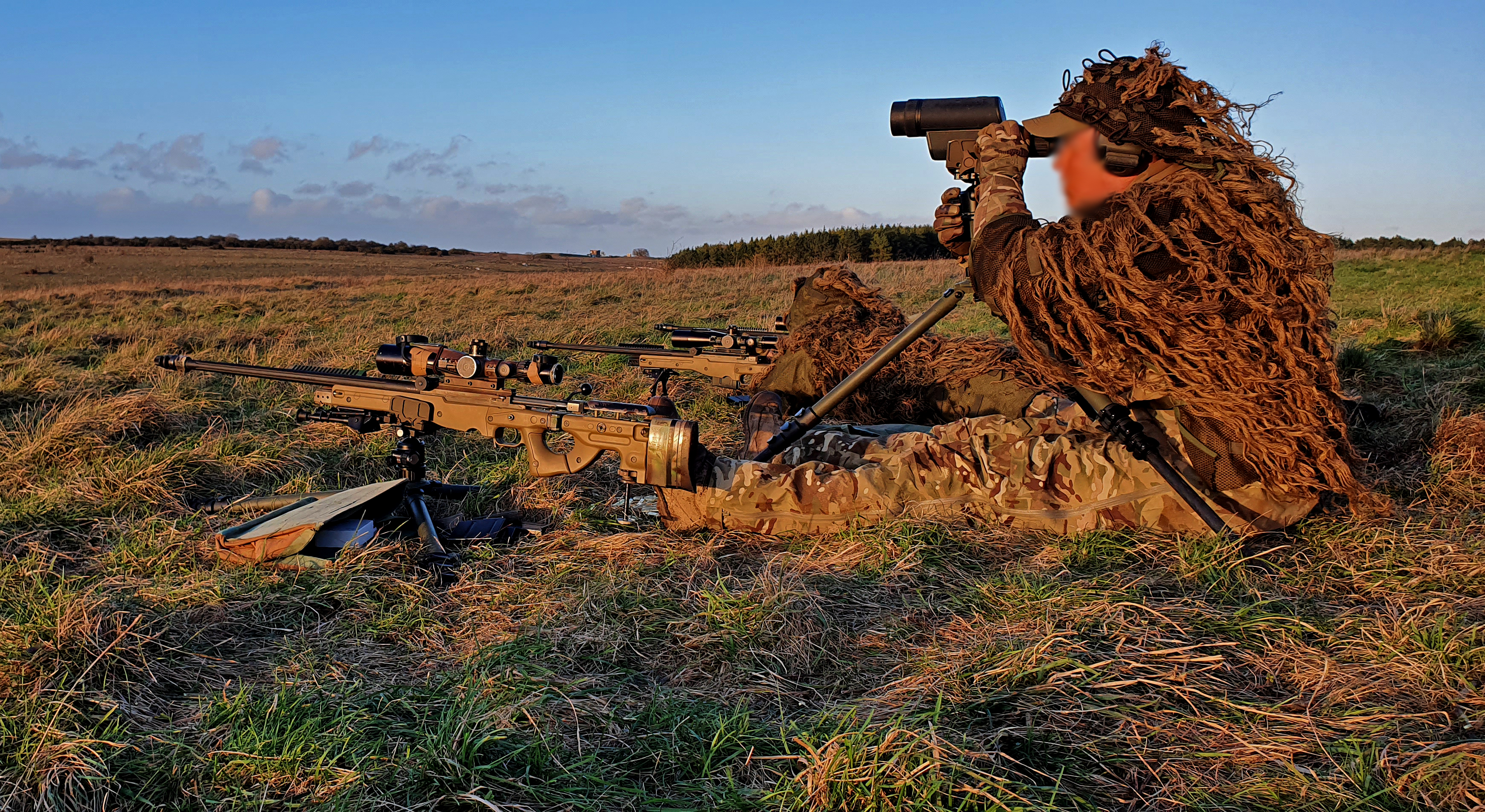 QDG sniper training